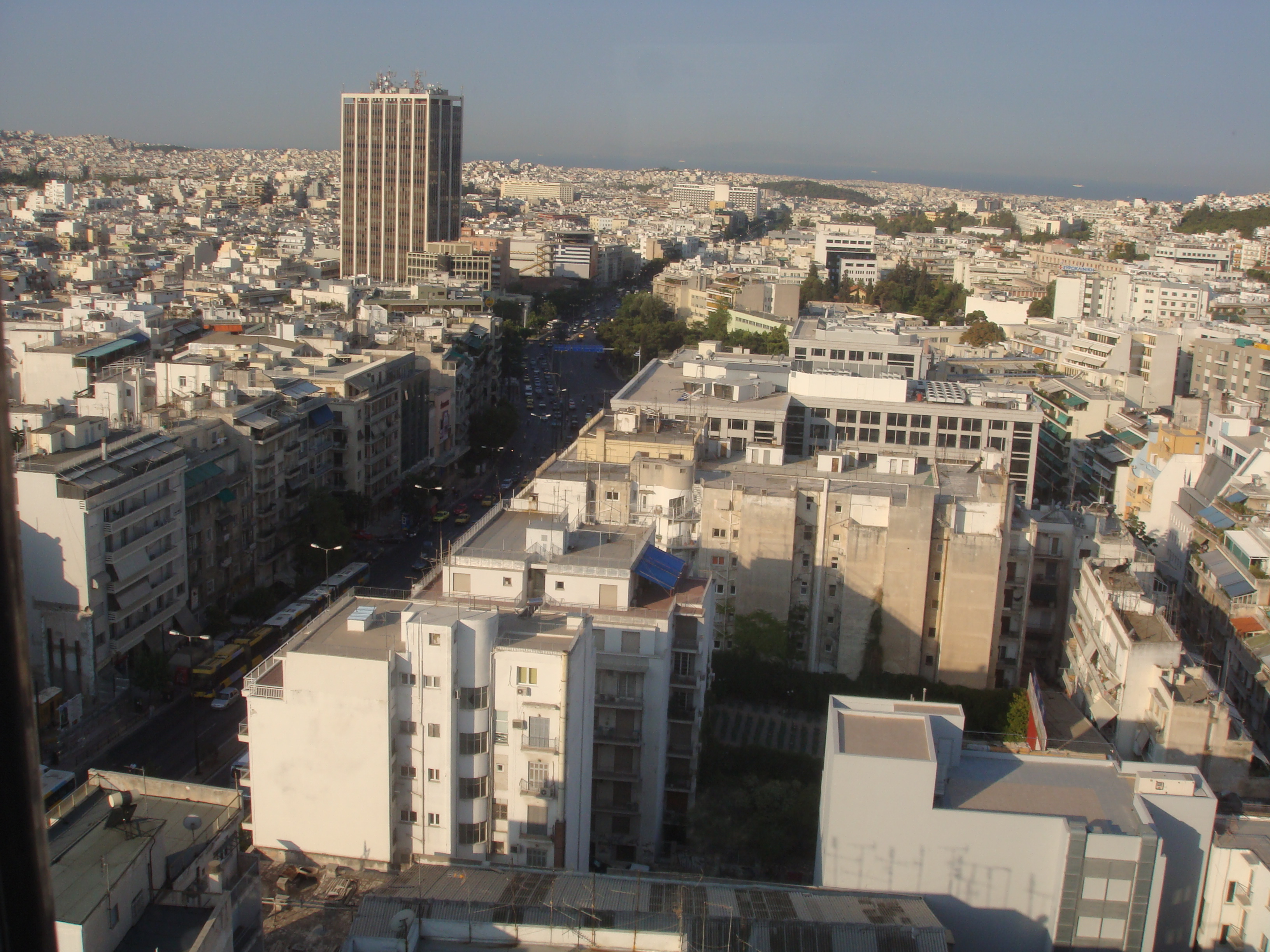 View of Athens from Kifissia Avenue.